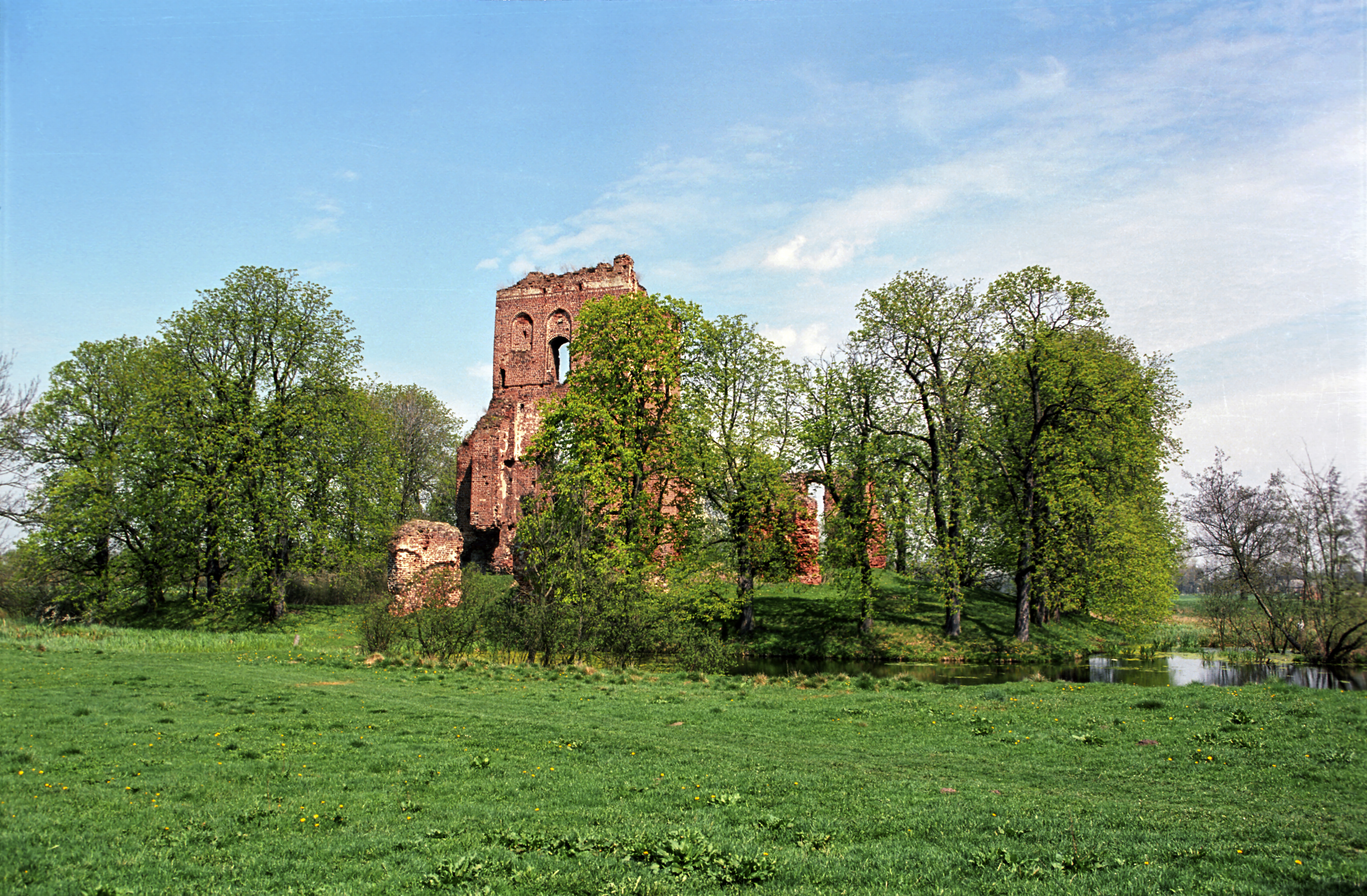 Poland, Boryslawice Castle